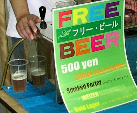 Isummit 2008, Japan, conference, organized by iCommons, and Creative Commons, concentrated on Free Culture. cropped and collor corrected